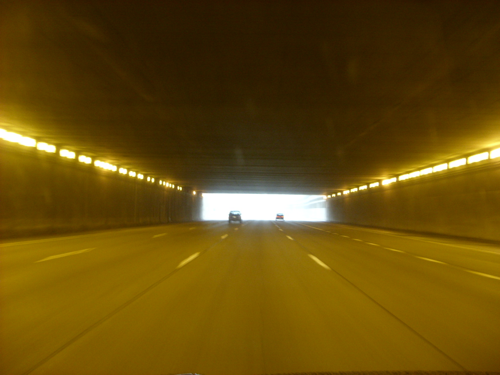 One of the "tunnels" formed by the landscaped plazas over the depressed Interstate 696 freeway in Oak Park, Michigan